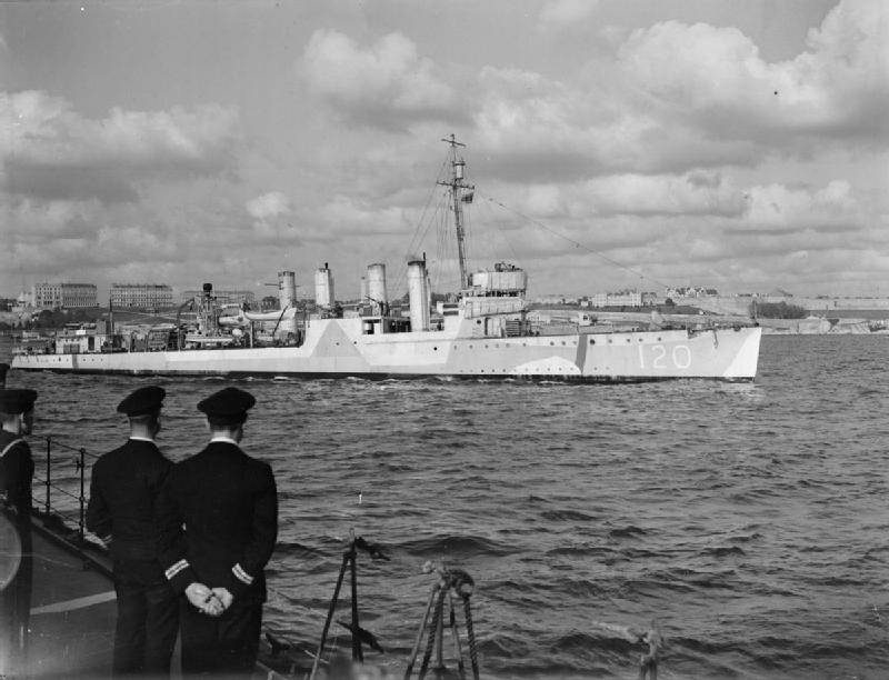 The Royal Navy during the Second World War The destroyer HMS CALDWELL, one of the American destroyers in commission with the Fleet under the Lend Lease agreement, steaming out of harbour for duty.